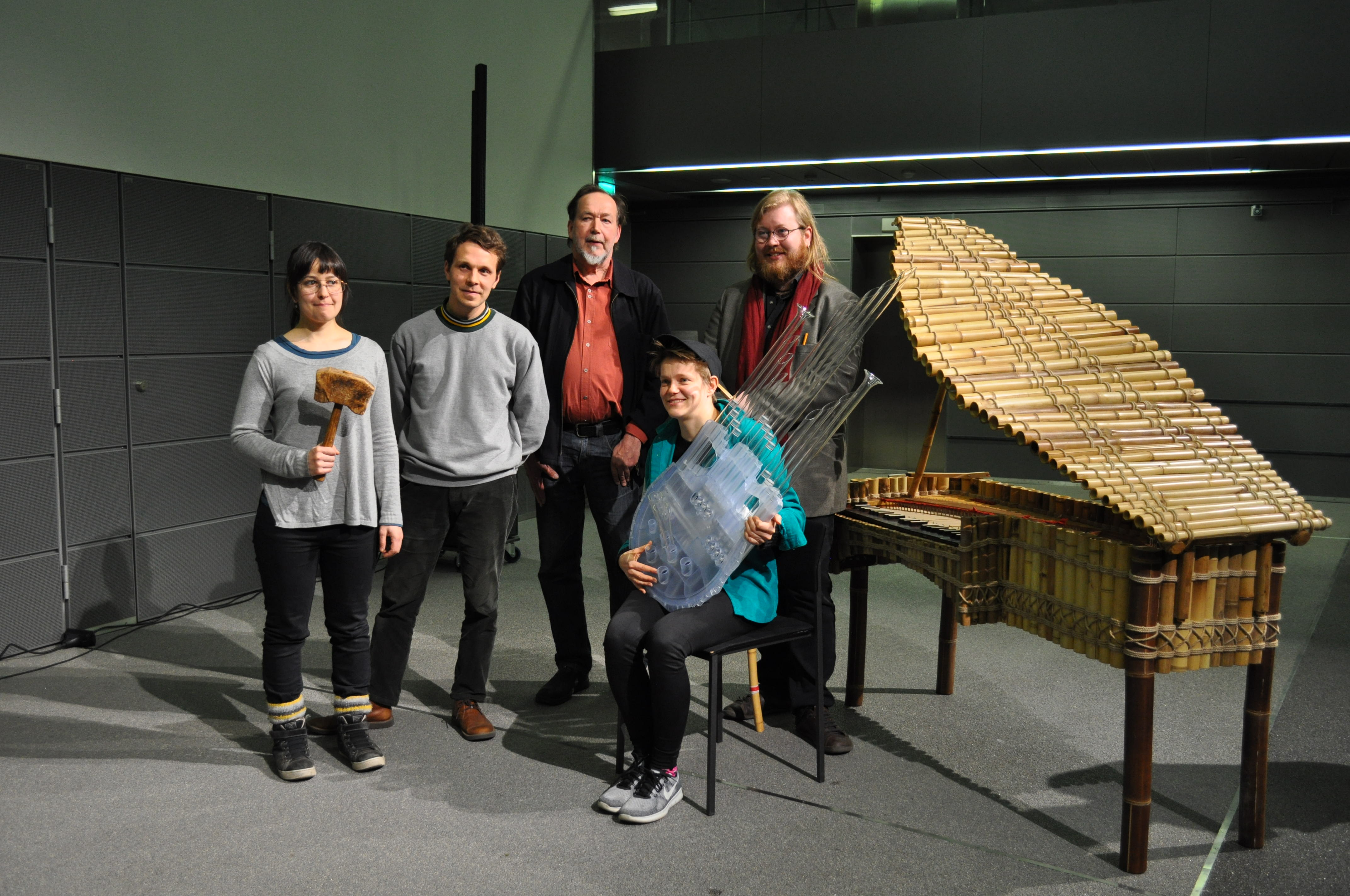 Flatlands by Jani Ruscica - Press conference